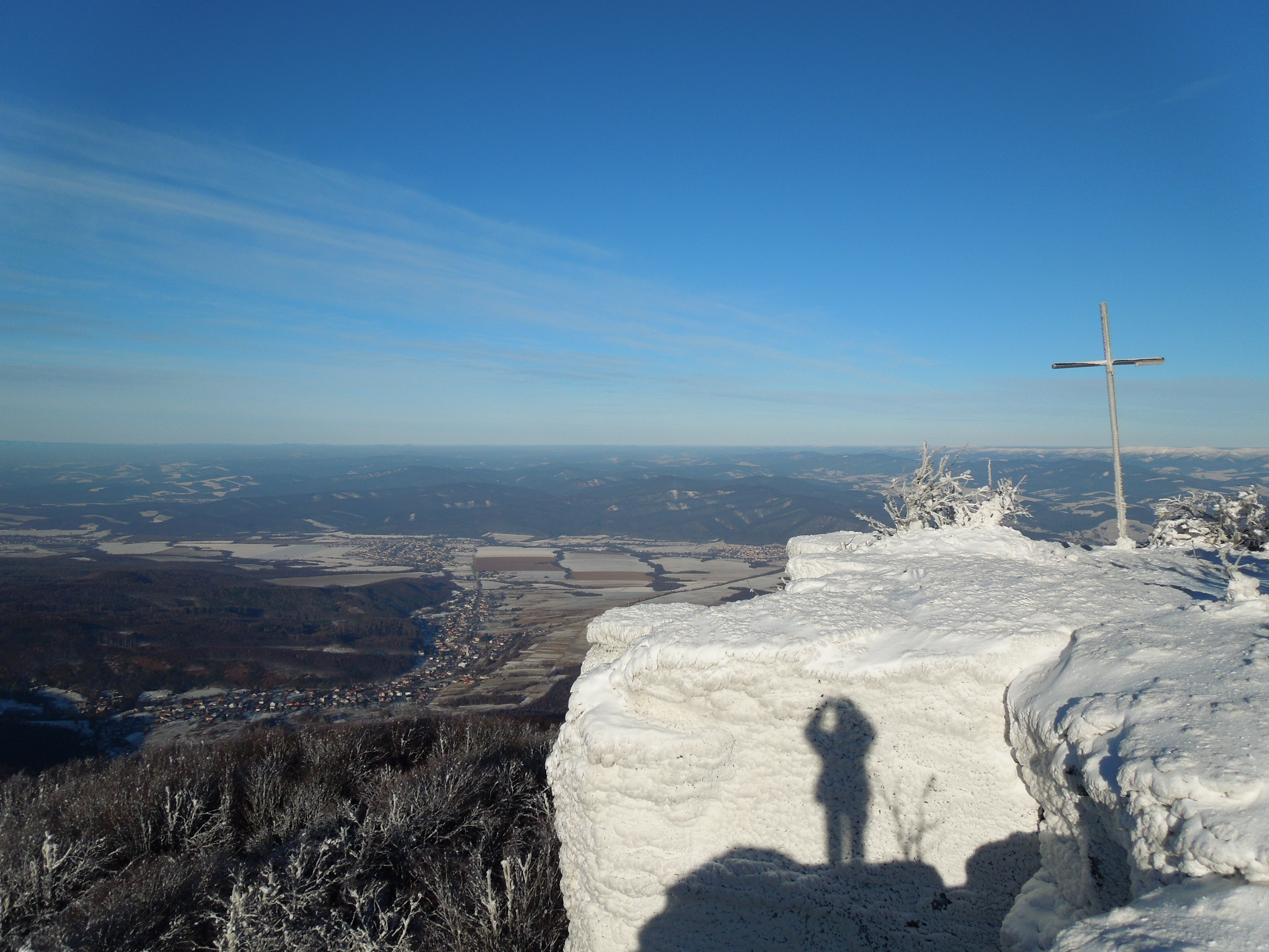 Sninský kameň in winter This is a photography of Natura 2000 protected area with ID SKUEV0209